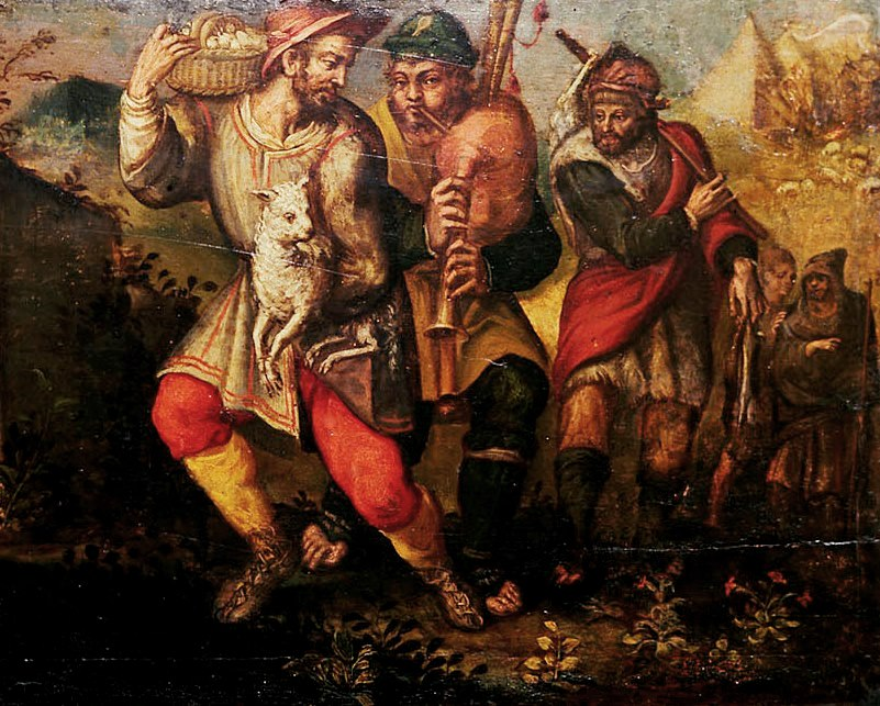 Shepherds (1575) by Vasco Pereira Lusitano. It hangs in the Museu Nacional de Arte Antiga, Lisboa, Portugal.